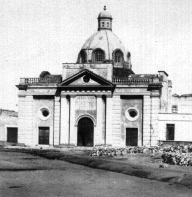 El Templo del Carmen en la ciudad de México a finales del siglo XIX